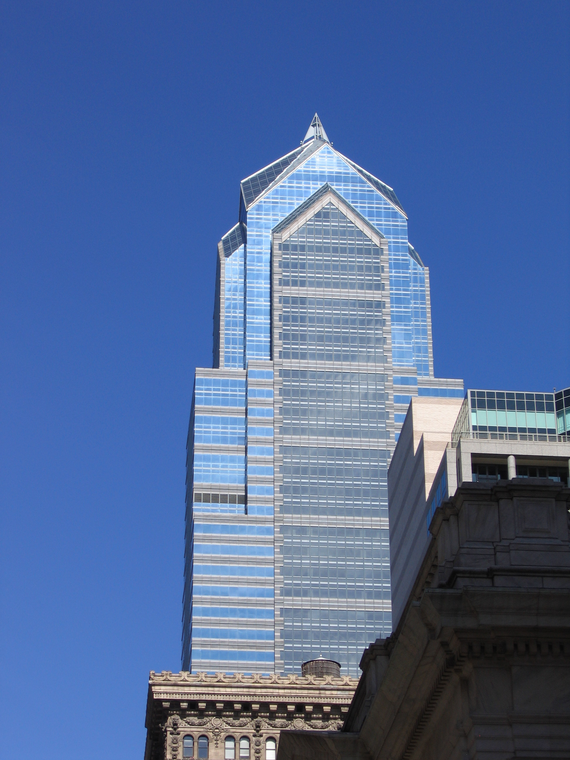 Two Liberty Place, the headquarters of CIGNA (east elevation).